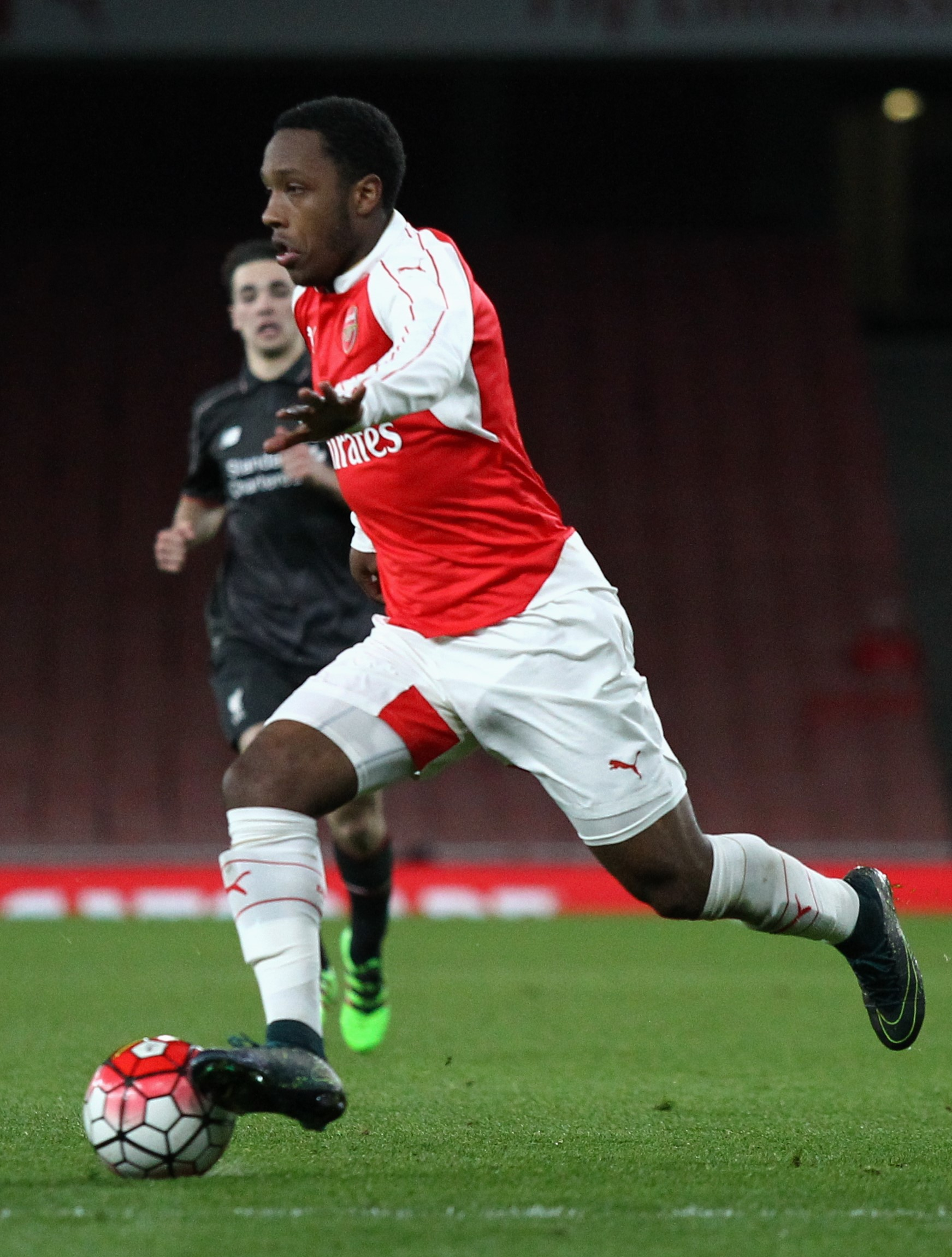 Kaylen Hinds of Arsenal U18s on the ball during the game against Liverpool.